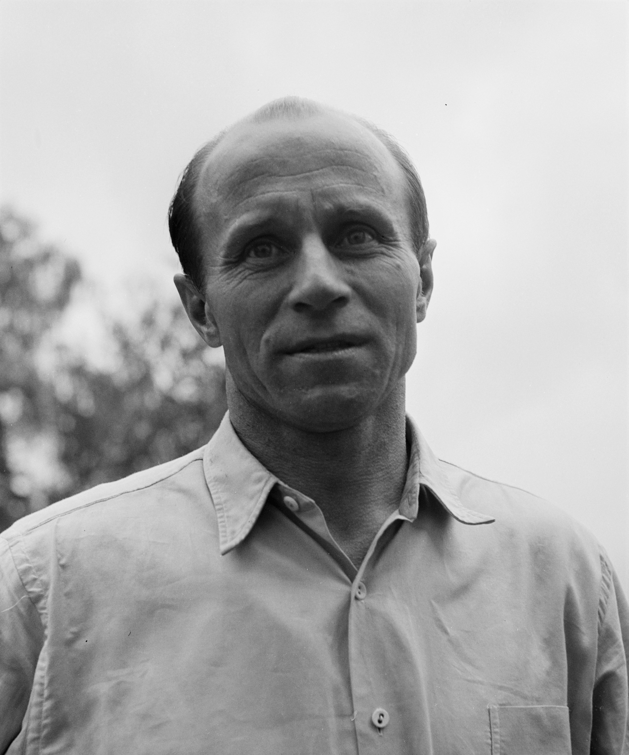 Heikki Savolainen in 1952.